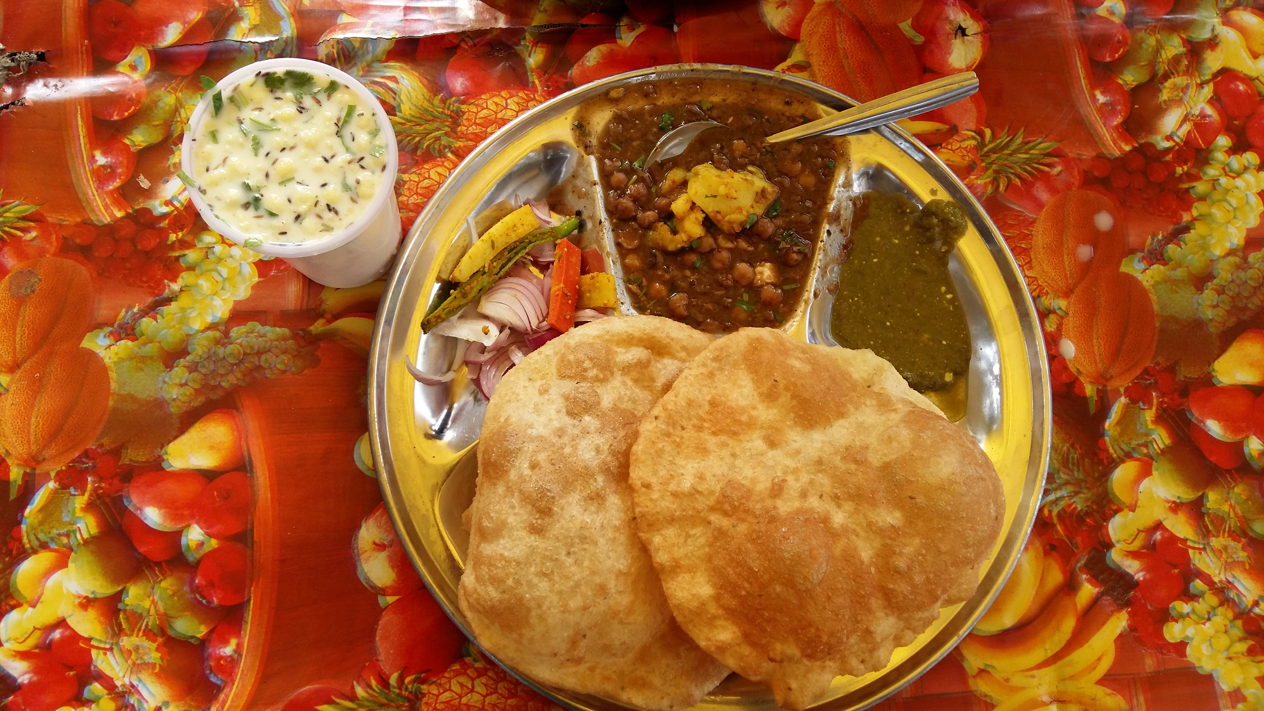 Chole Bhature served with Boondhi Raita on a roadside stall in Faridabad, Haryana, India.